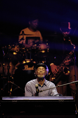 Gill Scott Heron performs at the Regency Ballroom, Friday, October 3, 2009 in San Francisco.